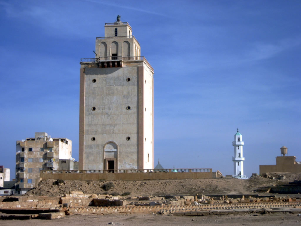 An Italian lighthouse dating from 1922 overlooks ancient ruins and the sea at Benghazi, Libya.